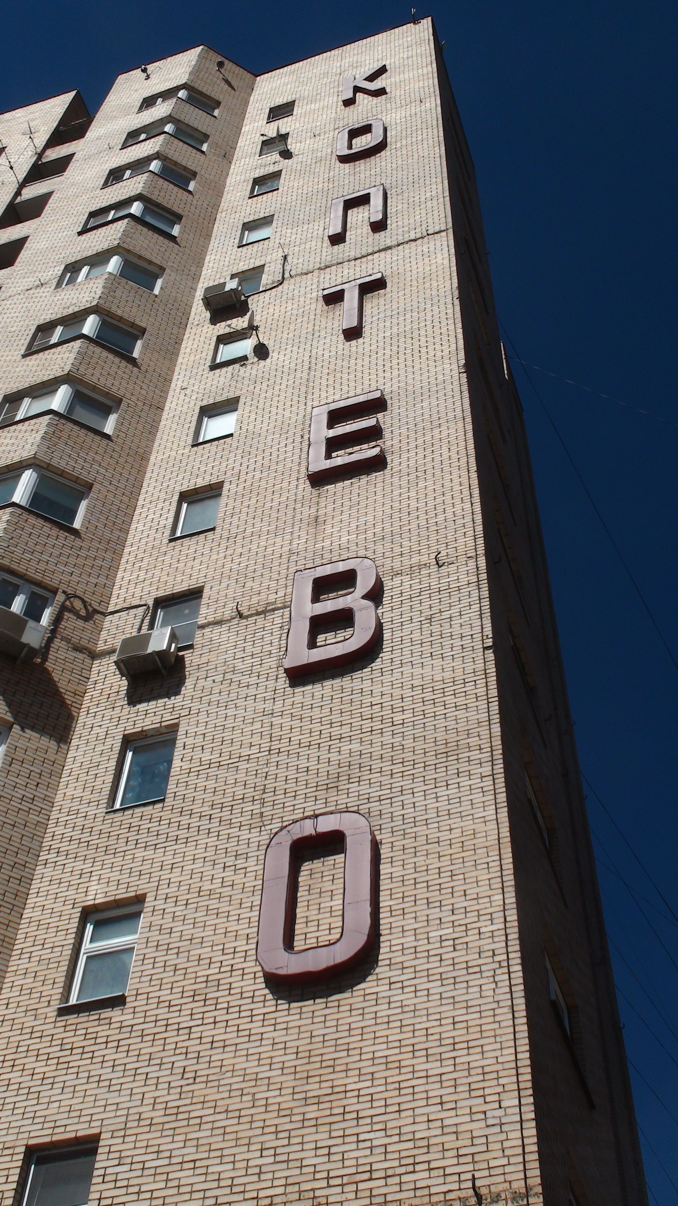 Коптево - район Москвы